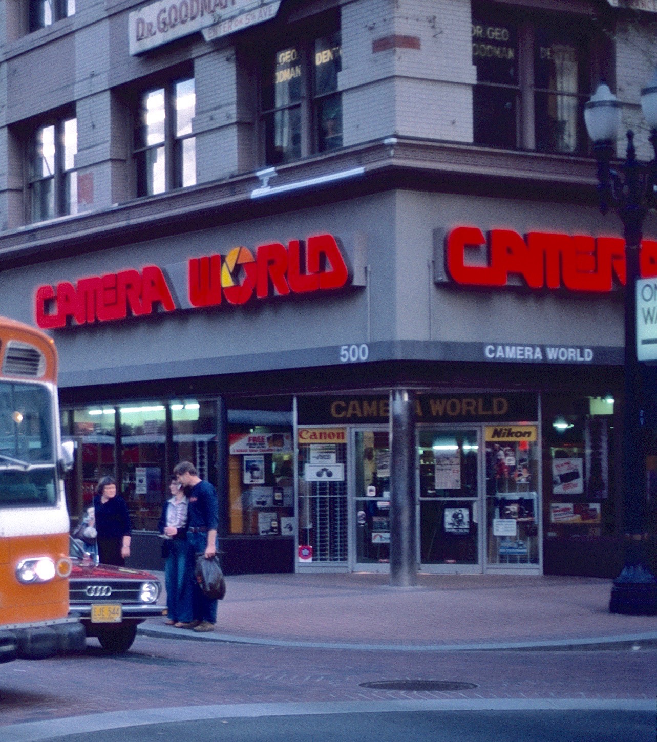 Camera World's retail store at its original location, at 5th & Washington, in the Swetland Building (in downtown Portland, Oregon). Although now only a brand name, Camera World was an independent company from 1977 to 2002, and for most of that period its administrative offices, inventory and mail-order operations were also housed in the Swetland Building, in floors above the store.